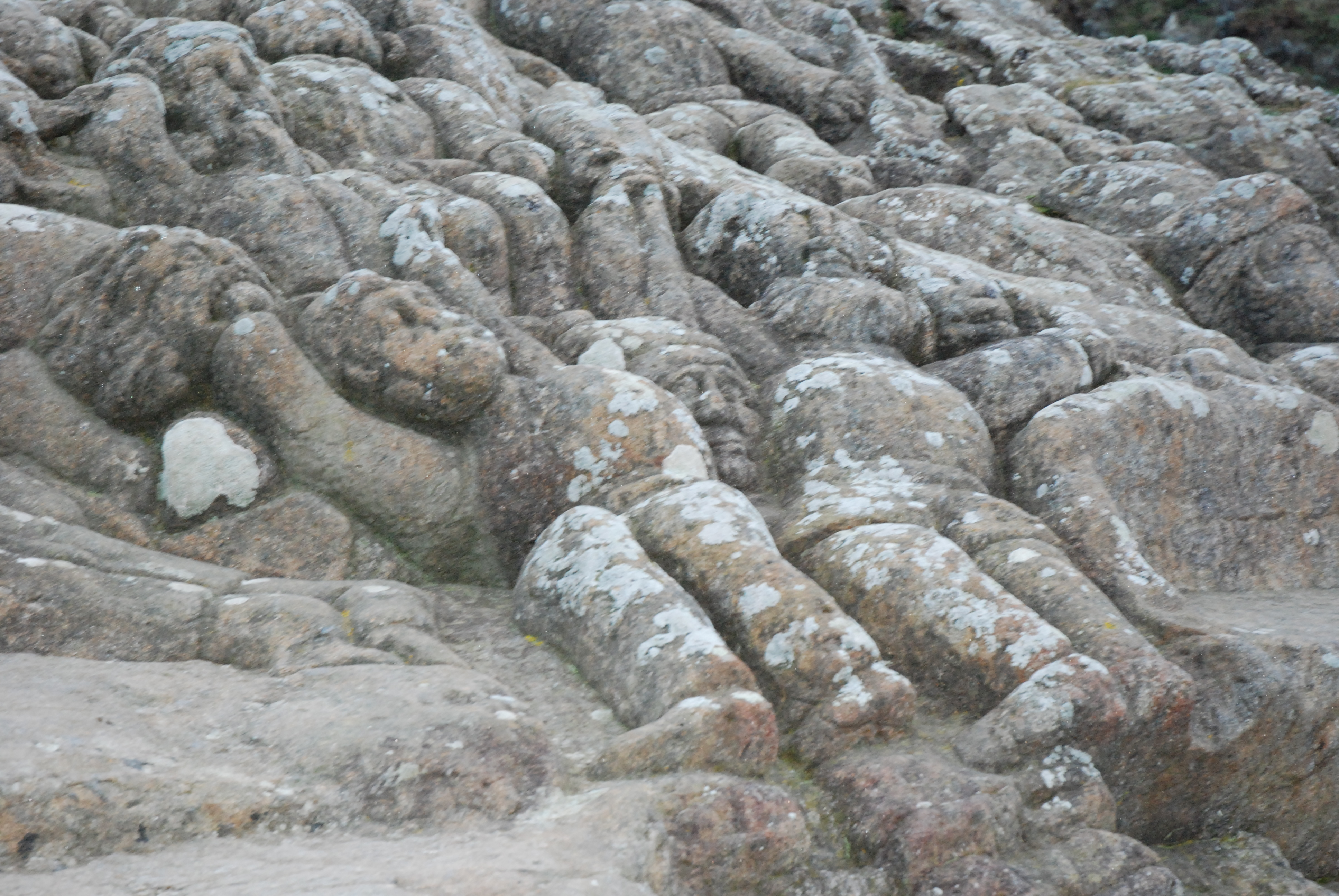 Sculpted rocks of Rotheneuf